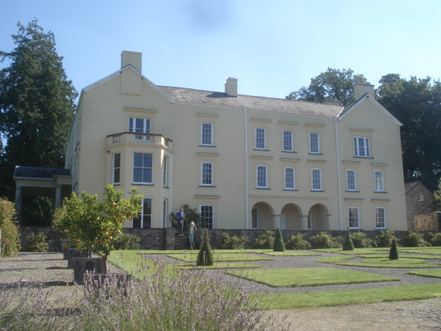 Aberglasney House Viewed from the now restored Cloister Garden, the exterior of the house now looks in good shape. Inside, there is still a lot of restoration work going on.